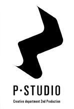 The logo of the Atlus studio P Studio